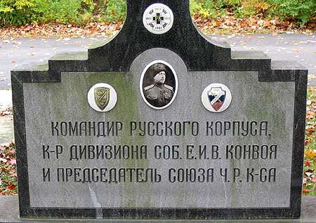 The grave of Colonel Anatoly Rogozhin in the Novo Deveevo Russian Orthodox convent, Nanuet, New York.